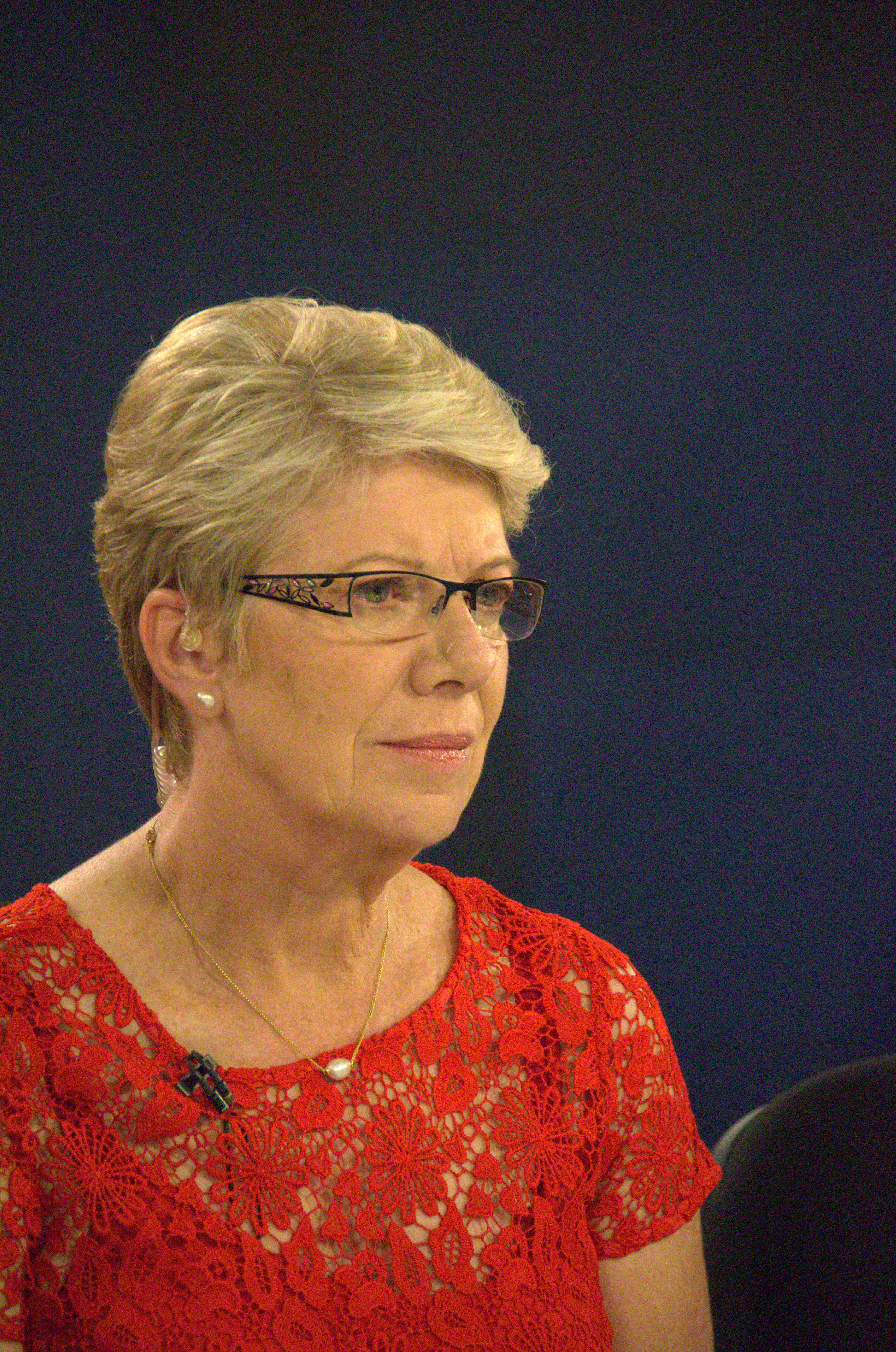 Photograph of Clare Martin during the 2012 Northern Territory general election